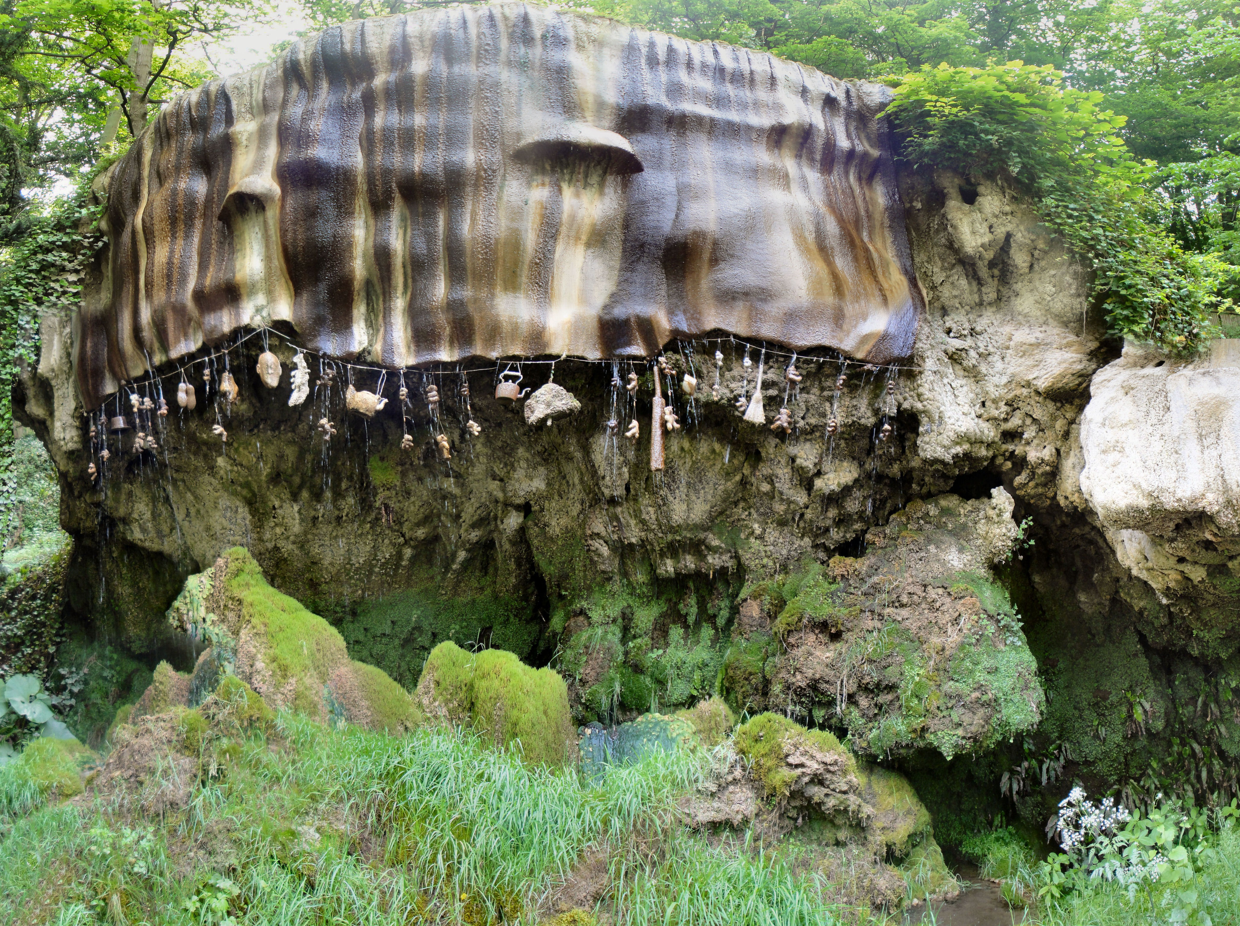 The petrifying well in Knaresborough. (Hanging from lines you see toys and everyday items in order to have them petrified under the highly mineral-enriched waters.)